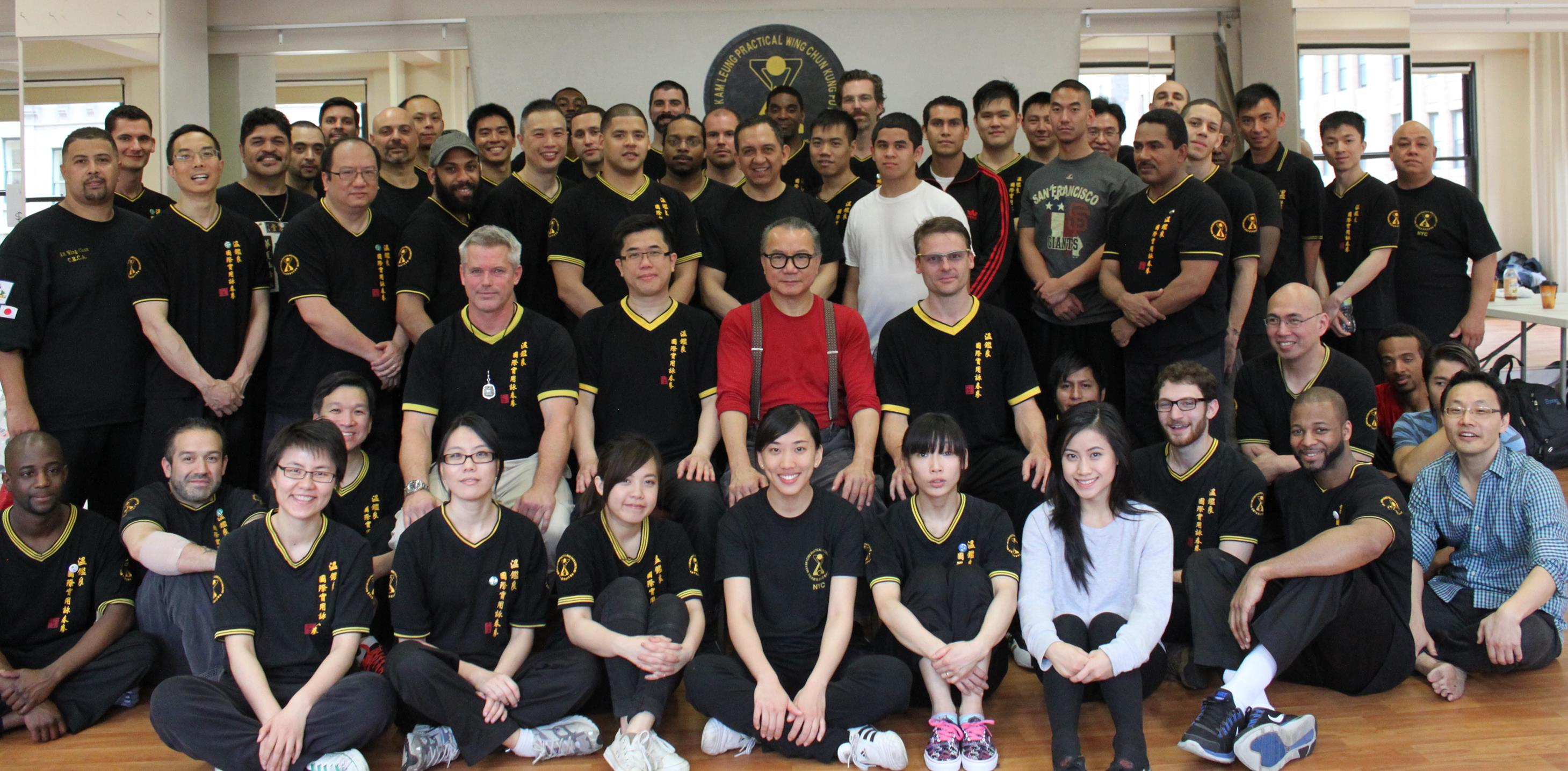 Group picture from the first Wan Kam Leung Practical Wing Chun Seminar in New York City